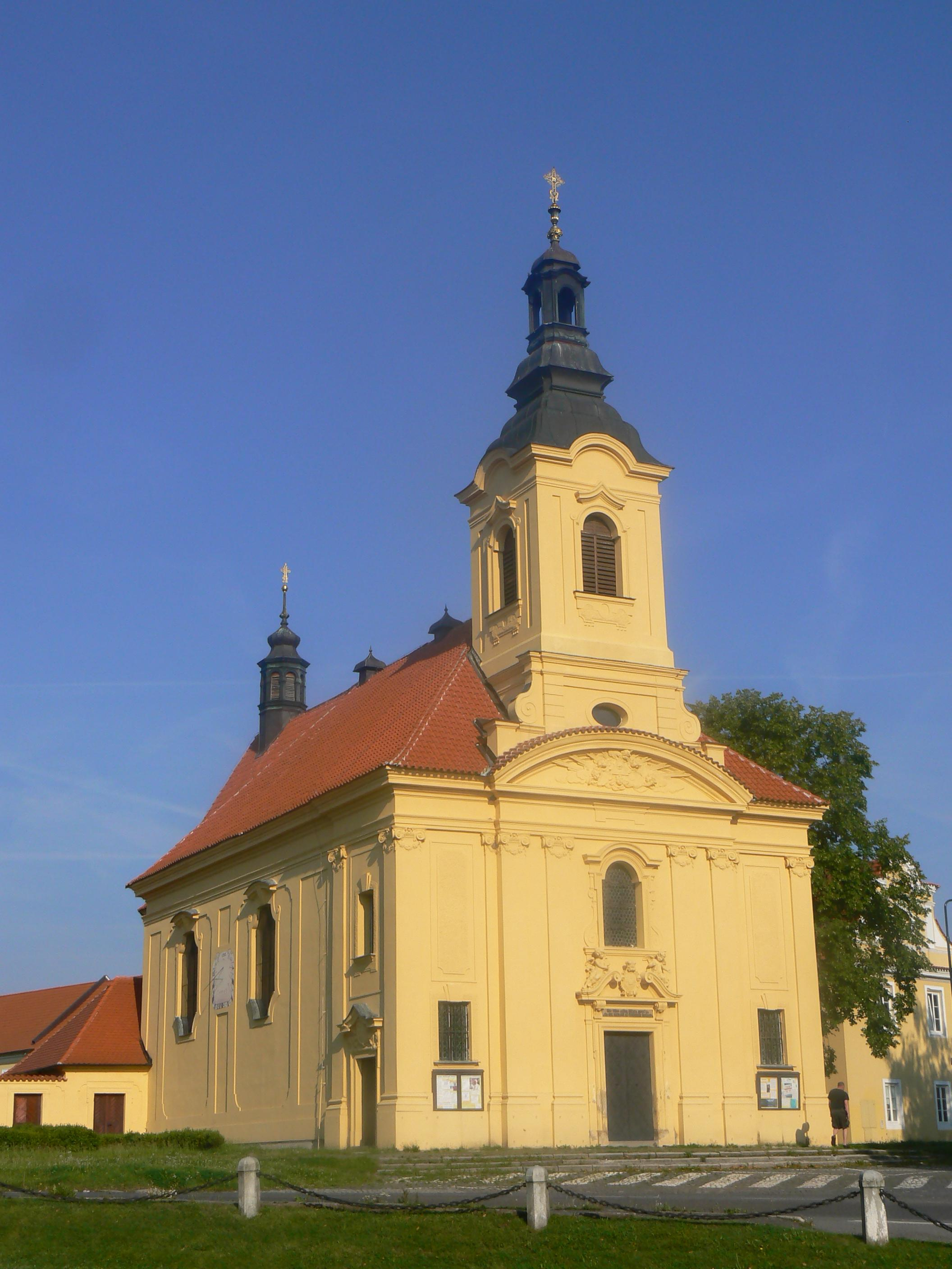 Most Holy Trinity Church in Dobříš, Příbram District, Czech Republic